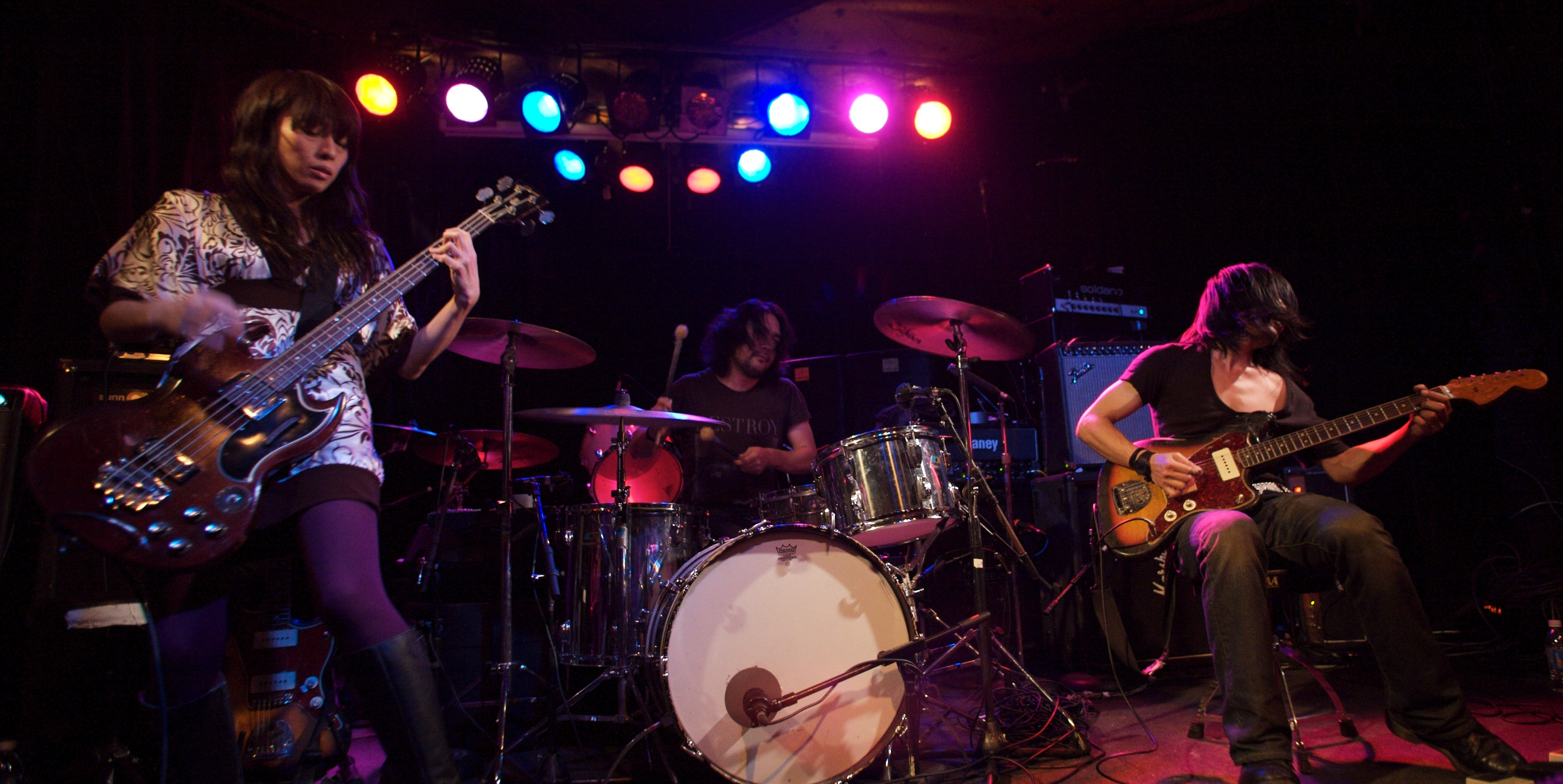 Mono @ the Crocodile Cafe 10.25.07 (Set: 54)